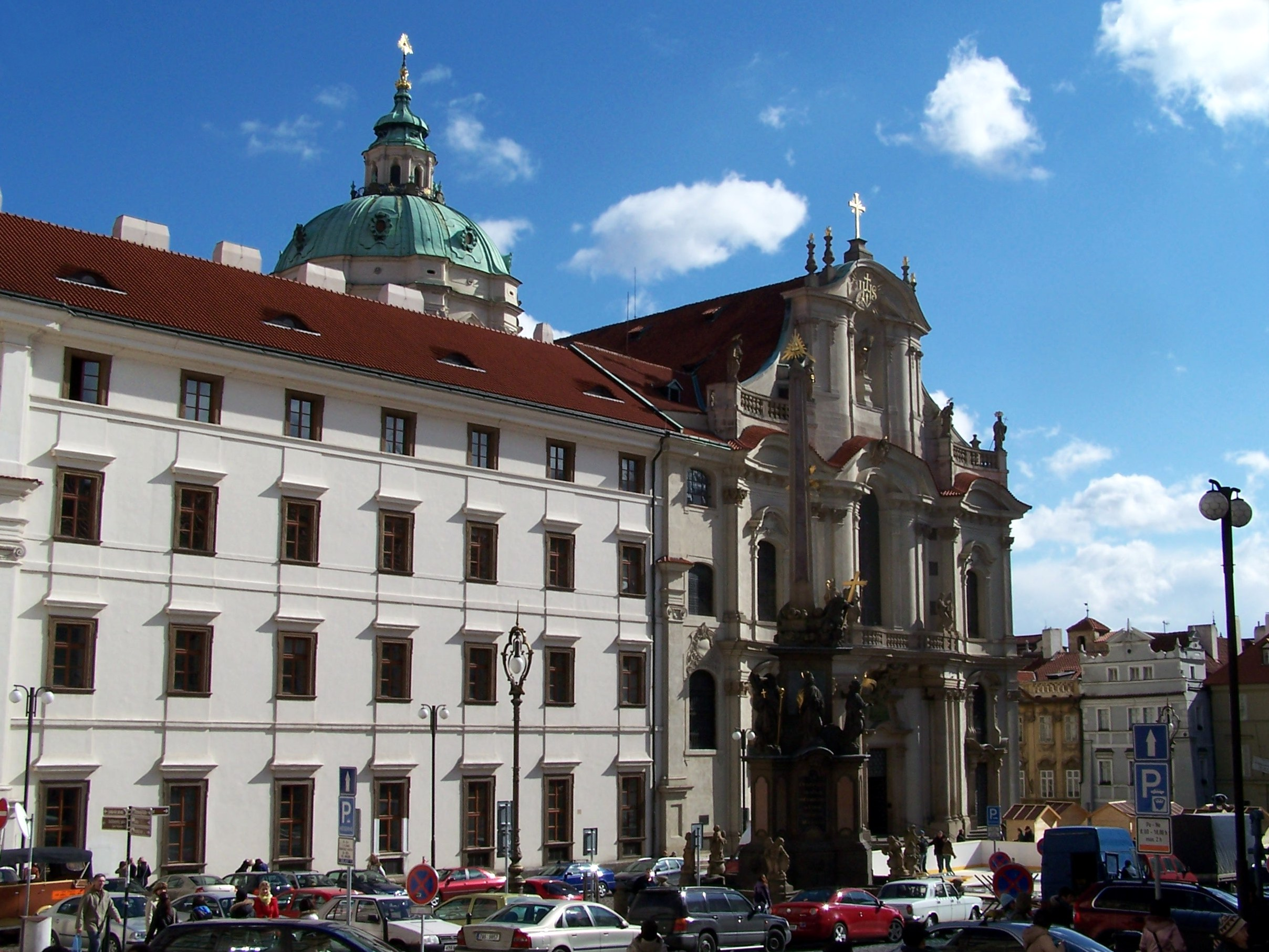 St. Nicholas of Malá Strana in Prague.